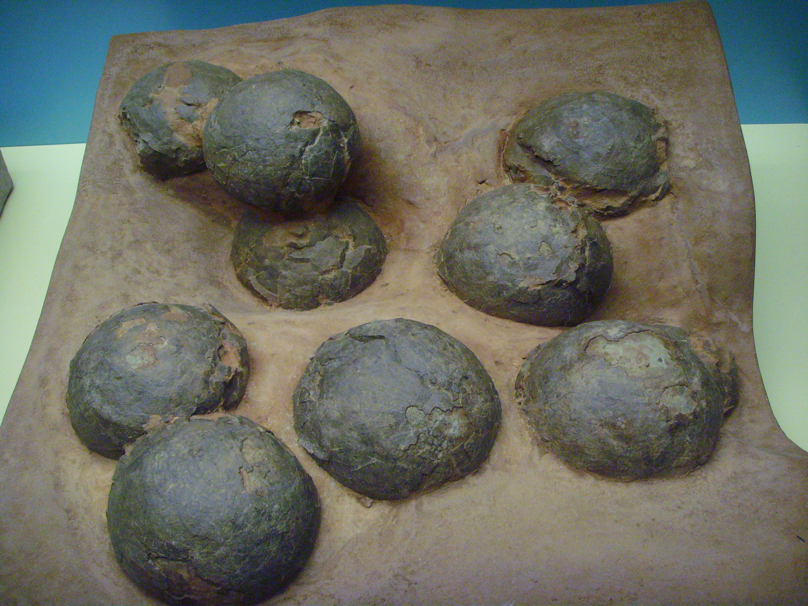 Clutch of round eggs named "Oolithes spheroides" unknown dinosaur from Mongolia, Original Location: Senckenberg-Museum, Frankfurt am Main Photographer: Gerbil November 2006